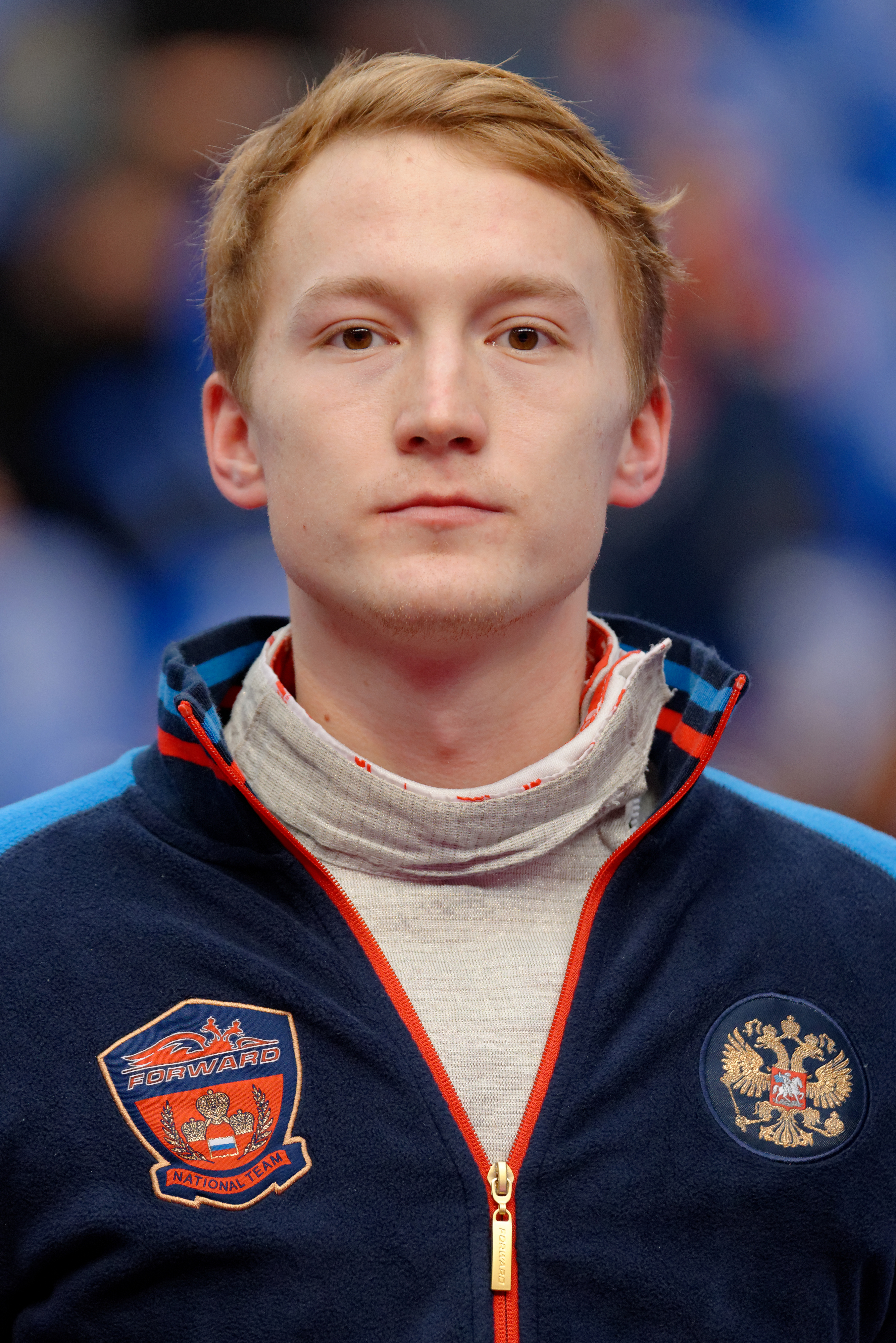 Russia's Artur Akhmatkhuzin at the individual event of the 2015 Challenge International de Paris, a men's foil World Cup competition.